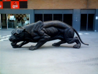 The Panther outside Boavistas stadium. Portugal has Freedom of Panorama.